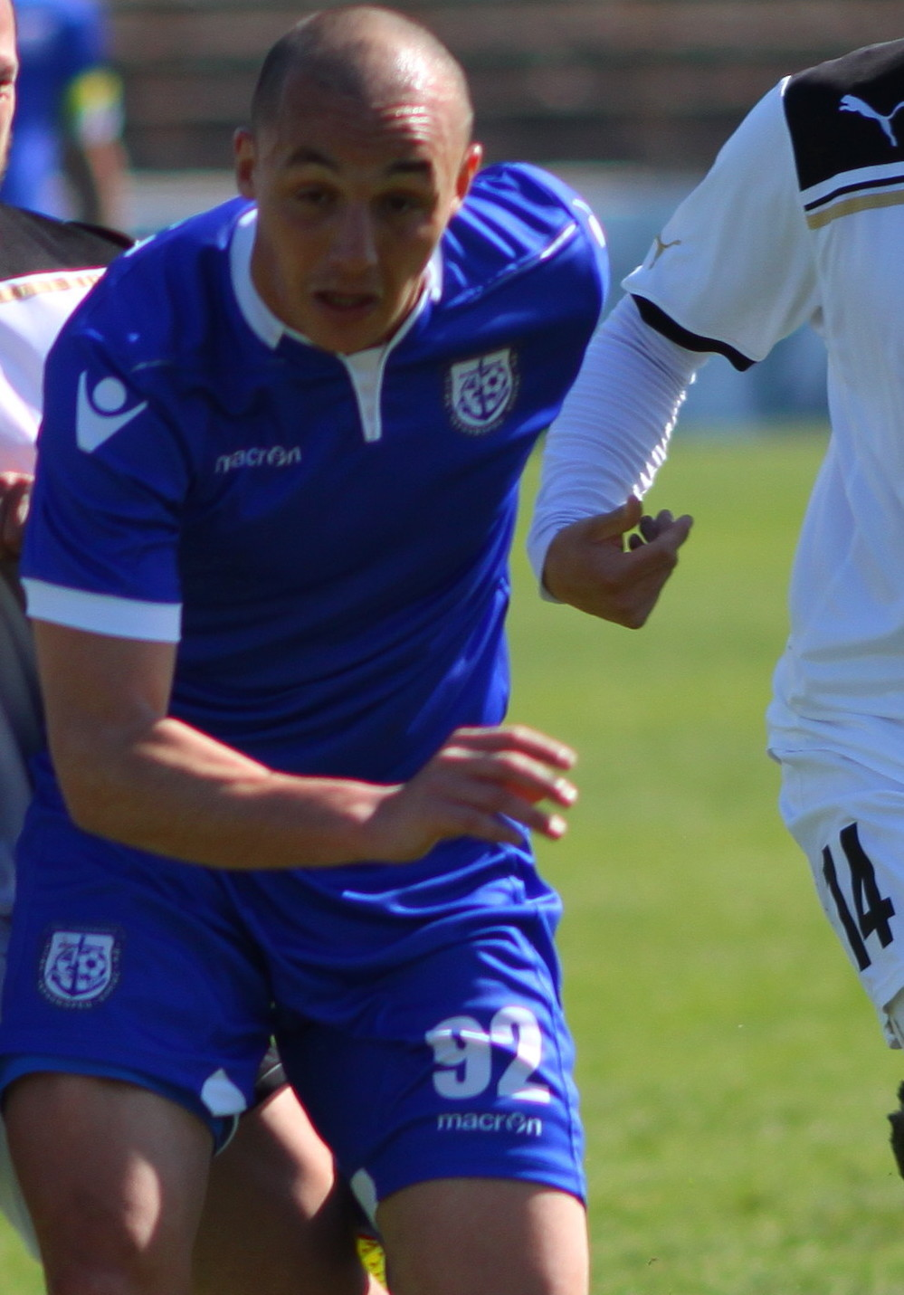 Aatif Chahechouhe (born 2 July 1986 in Fontenay-aux-Roses) is a French-born Moroccan football player who currently currently plays for Bulgarian A PFG side Chernomorets Burgas.